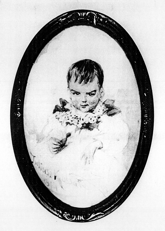 Watercolour by Juliusz Kossak of Madame Bronislas de Minkowicz-Wysoczanska, née Romaszkan, signed Juliusz Kossak and dated 1894